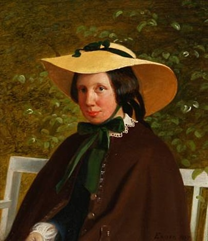 Portrait of Louise Christine Heegaard, née Feilberg, 1857